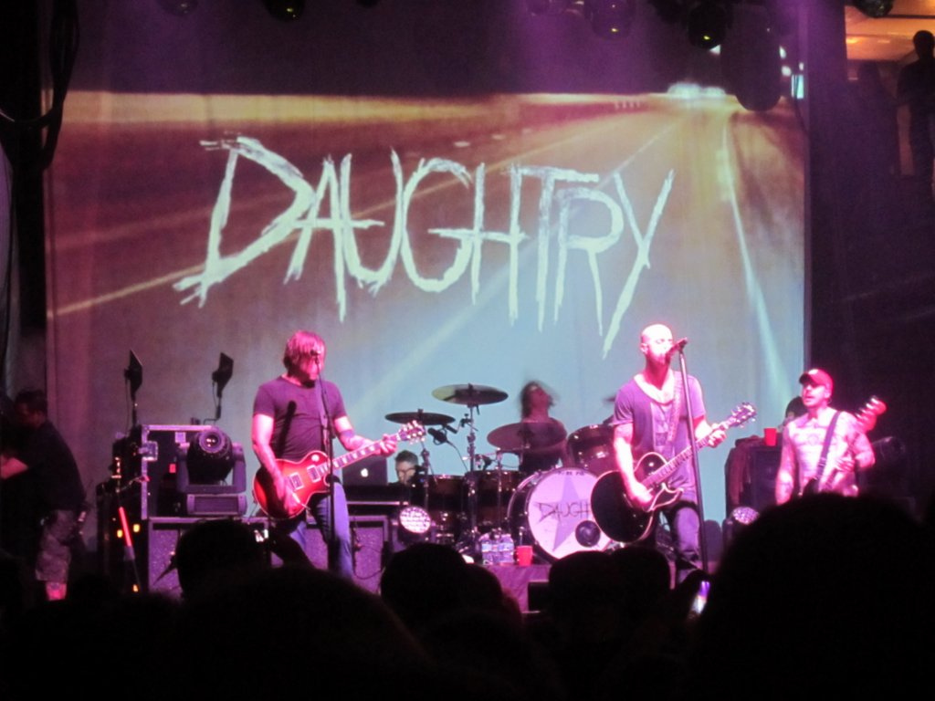 Daughtry live on May 13th, 2012